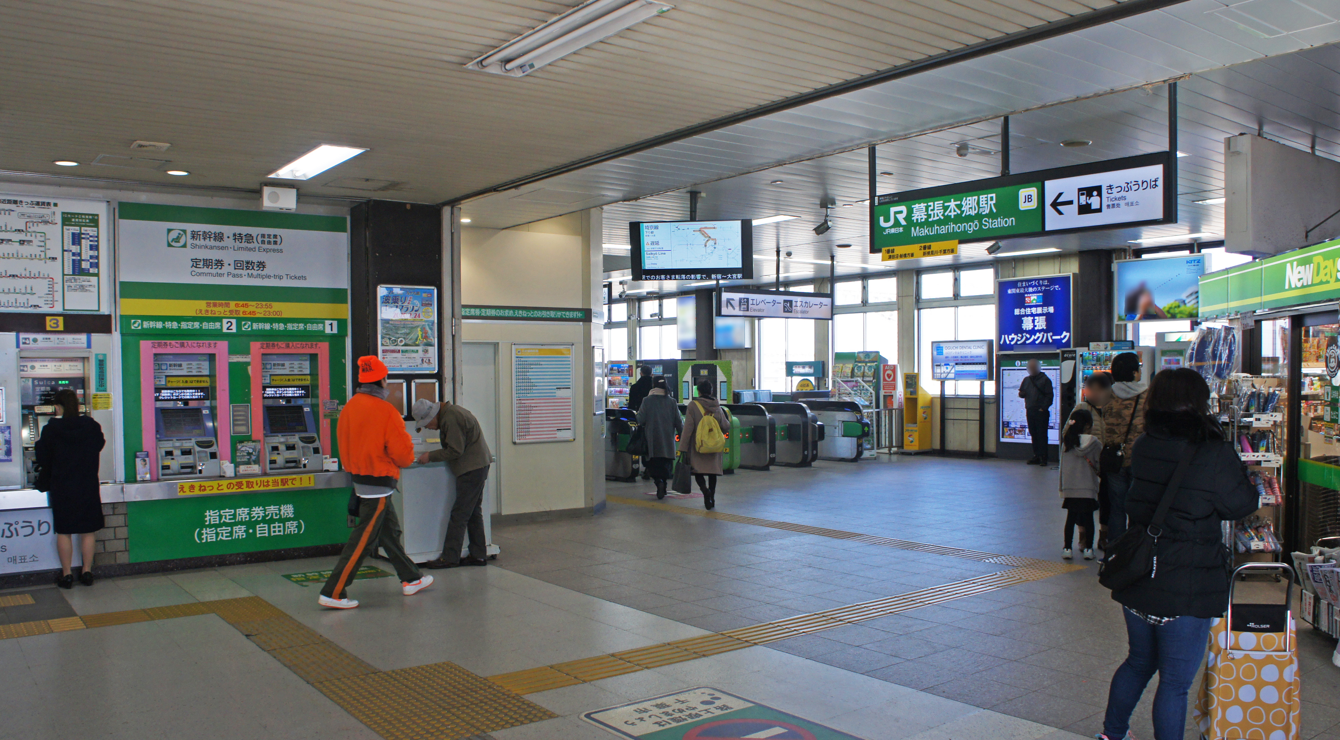 Concourse of JR Sobu-Main-Line Makuharihongo Station